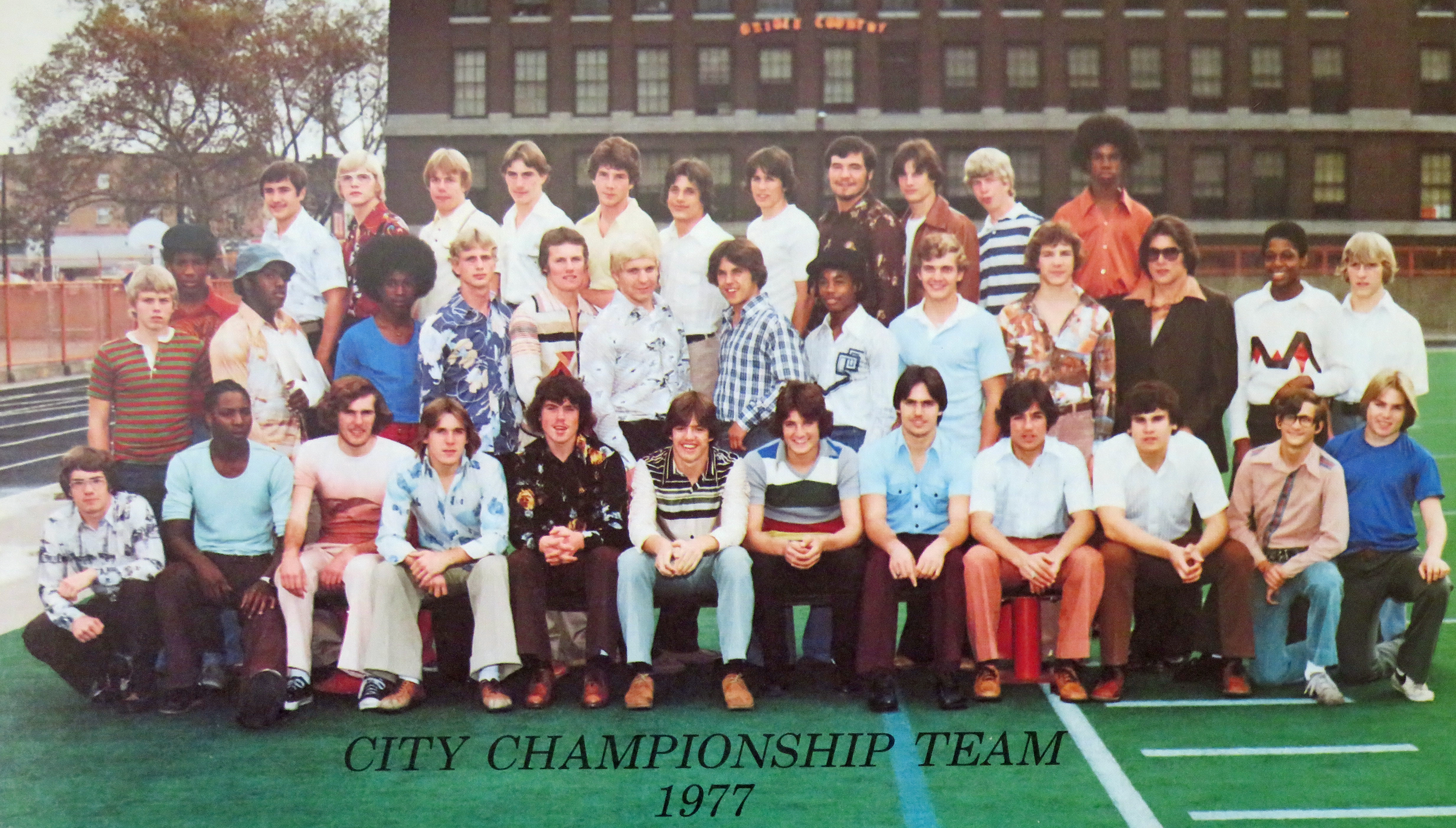 South High School Orioles 1977 Football Champions